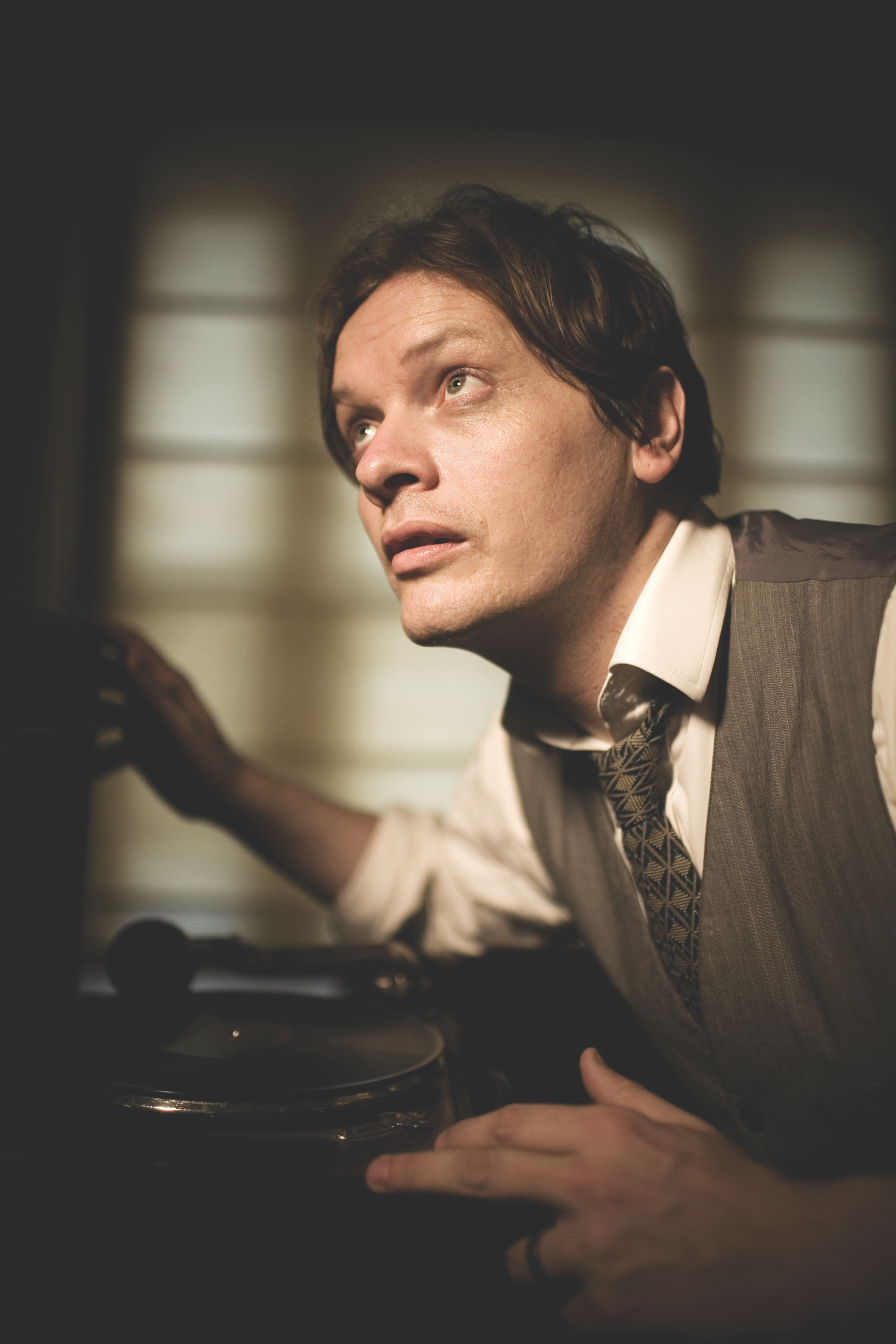 Stephen Coates of the band The Real Tuesday Weld